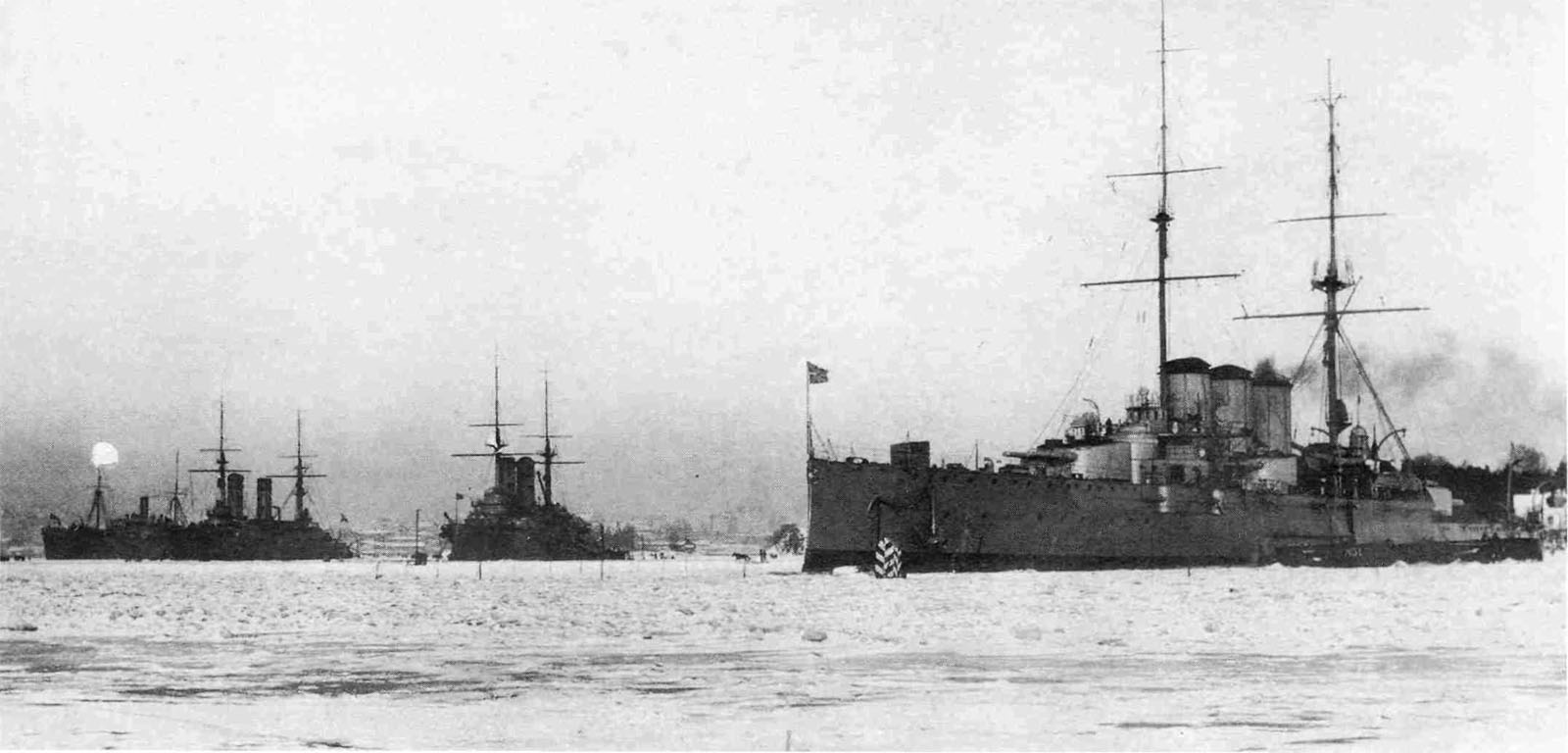 Imperial Russian cruiser Riurik at Helsingfors, winter 1913-1914.